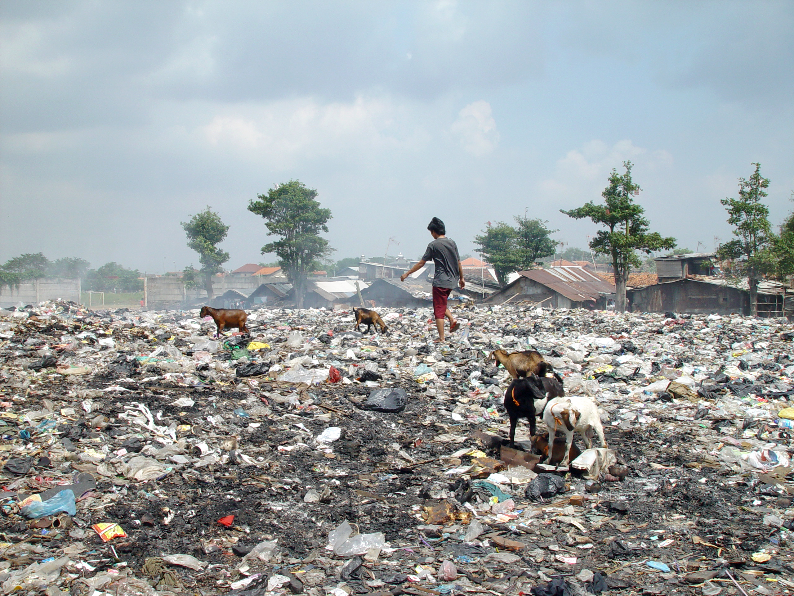 Slum life, Jakarta Indonesia.